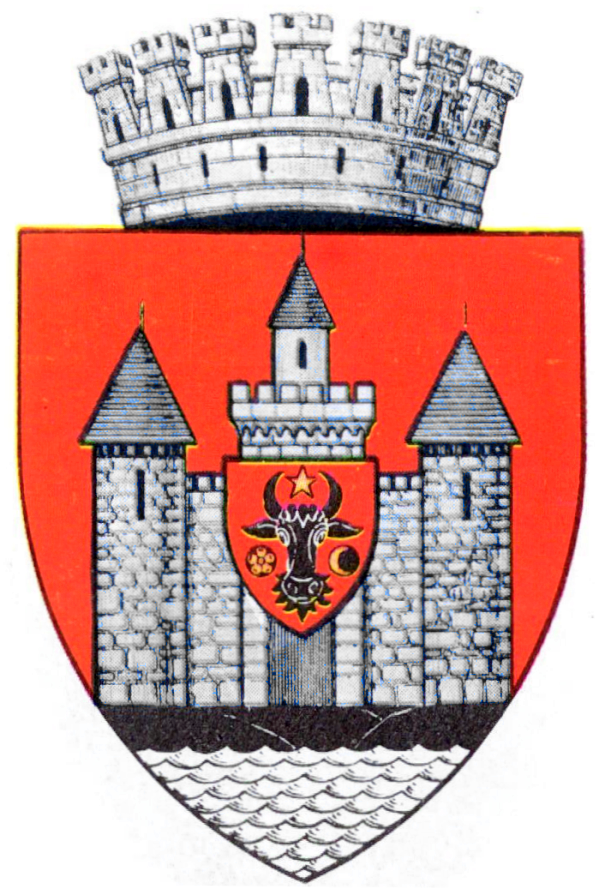 Interwar coat of arms of Bilhorod-Dnistrovskyi, Cetatea Albă County, Kingdom of Romania.